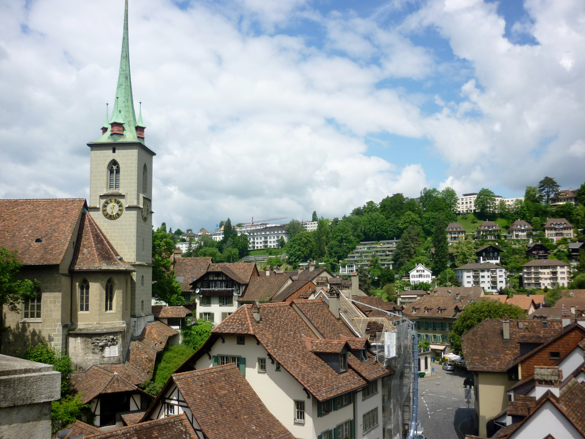 Nydeggkirche, Bern